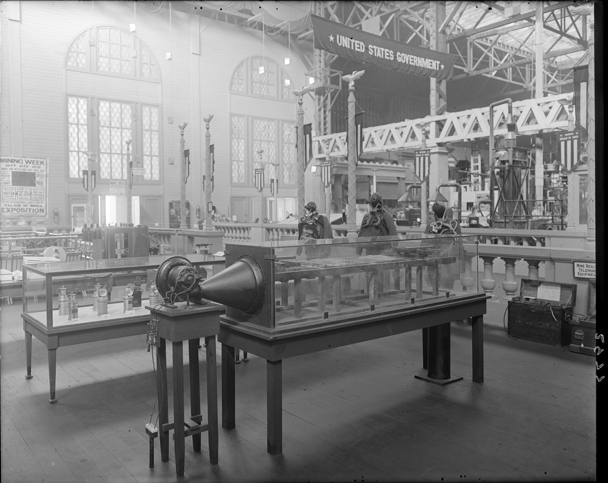 Department of the Interior Bureau of Mines exhibit at the Panama-Pacific International Exposition, San Francisco, California, 1915. Also see Record Unit 95, Box 63, Folder 6. From 8" x 10" glass negative. Smithsonian Institution Archives, Acc. 11-006, Box 006, Image No. MAH-2977